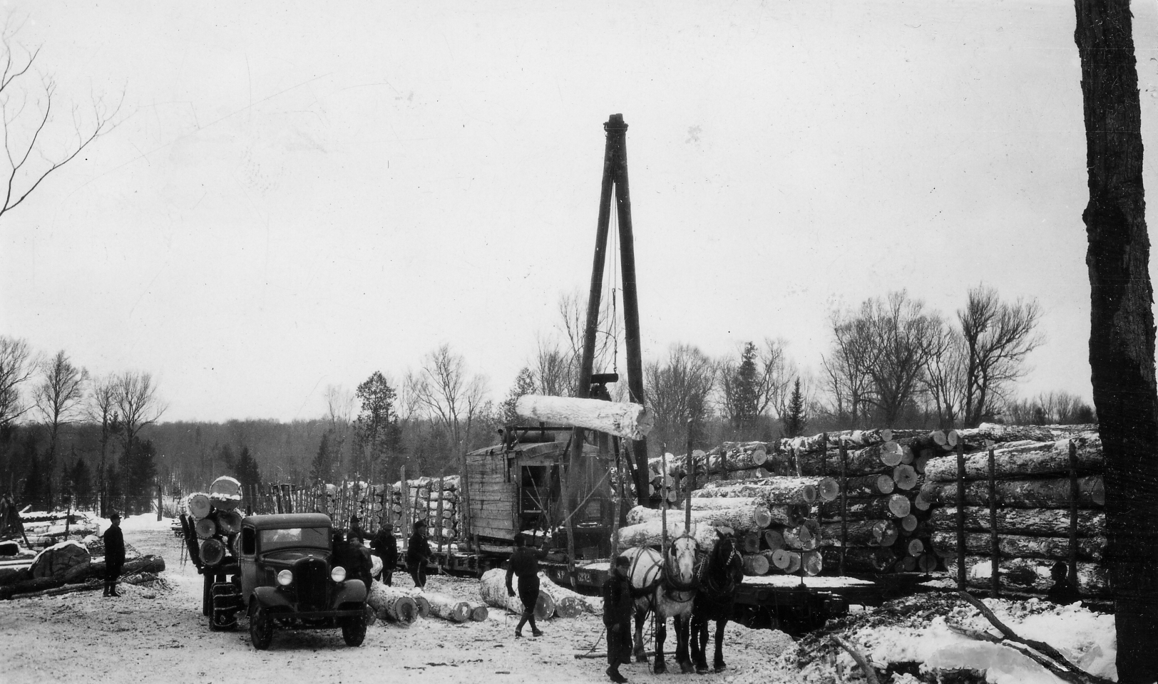 Scope and content: Original caption: Gasoline jammer loading logs on car; also train of log cars, etc. Patten Timber Co. job.